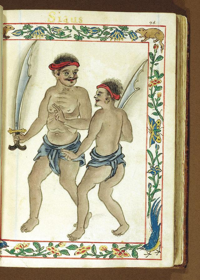 "Siaus" - Warriors from Siau, North Sulawesi, Indonesia - Boxer Codex (1590) Observed by the Colonial Spanish Authorities in Manila, Philippines around 1590 AD